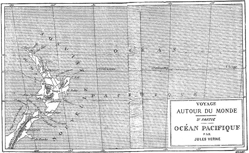 An ilustration from the novel "In Search of the Castaways; or Captain Grant's Children" by Jules Verne drawn by Édouard Riou.